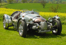 BMW powered Pembleton Brooklands